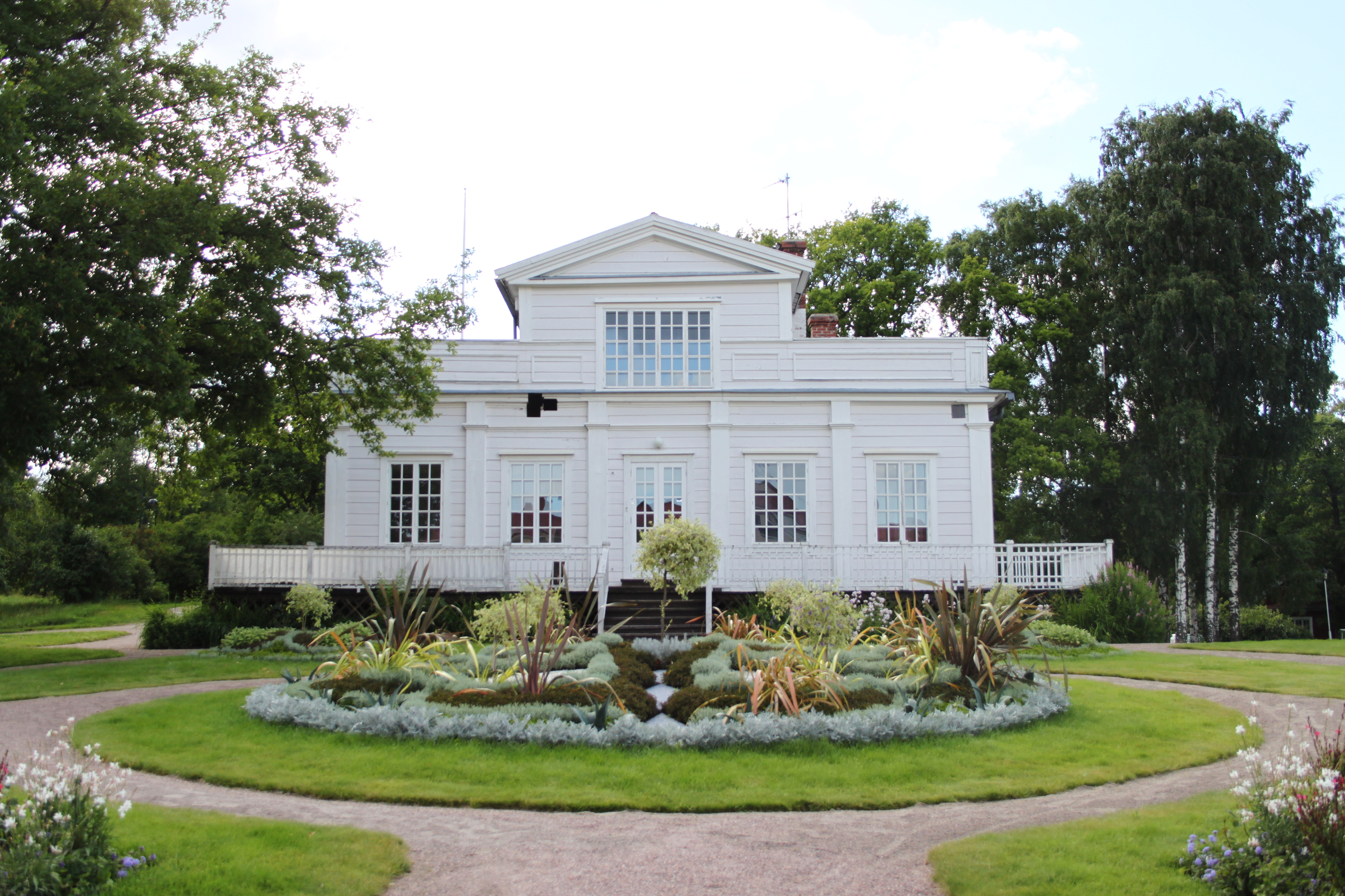 Villa Anneberg, Helsinki. Built 1832.